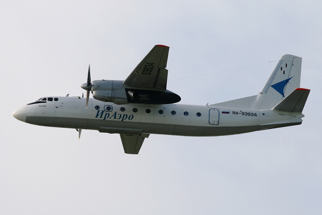 Ex-Ulan-Ude Aviation Plant plane division. Novosibirsk - Krasnoyarsk - Irkutsk - Ulan-Ude flight. New in .